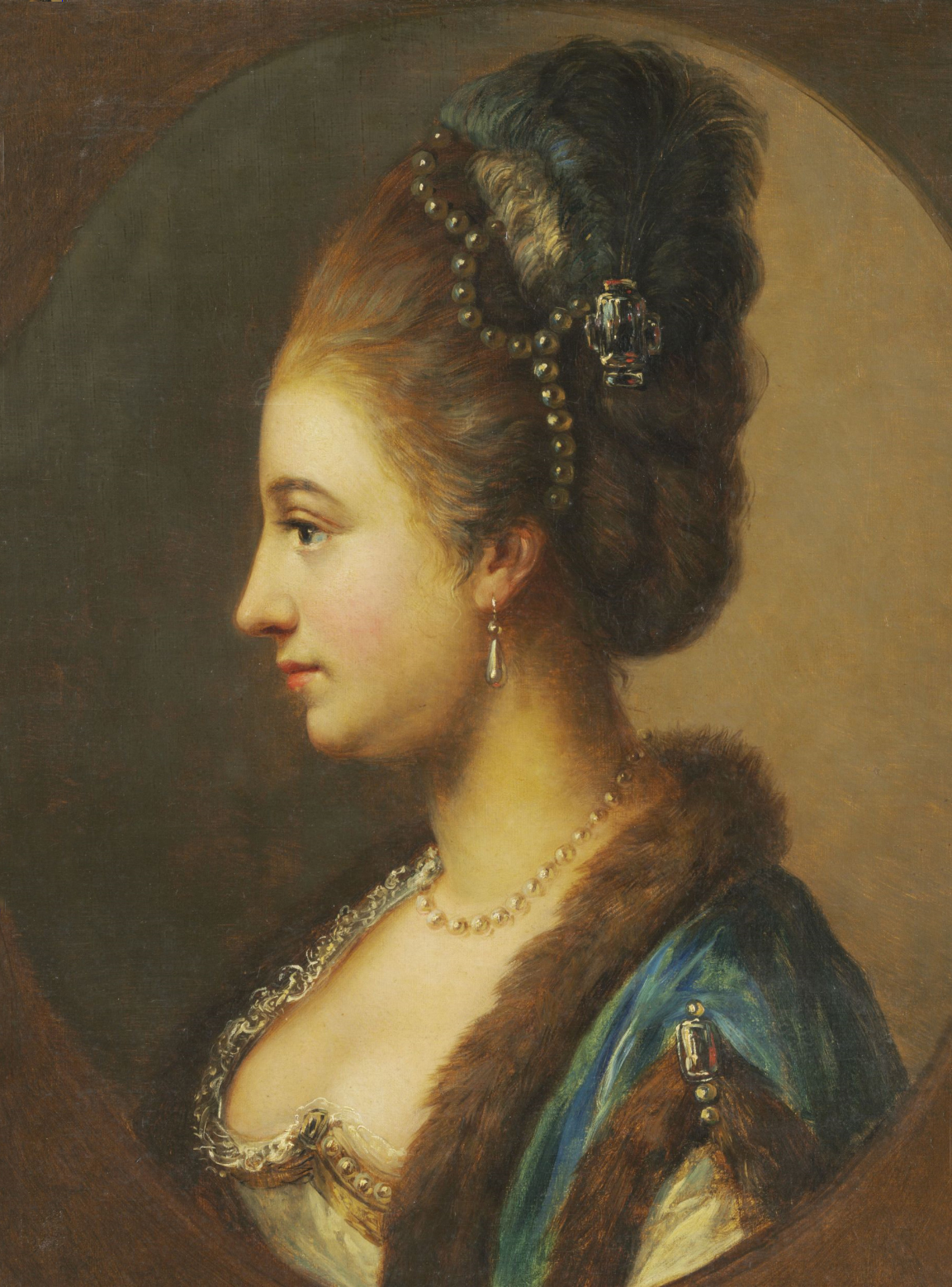 Philippine of Brandenburg-Schwedt, Landgravine of Hesse-Kassel